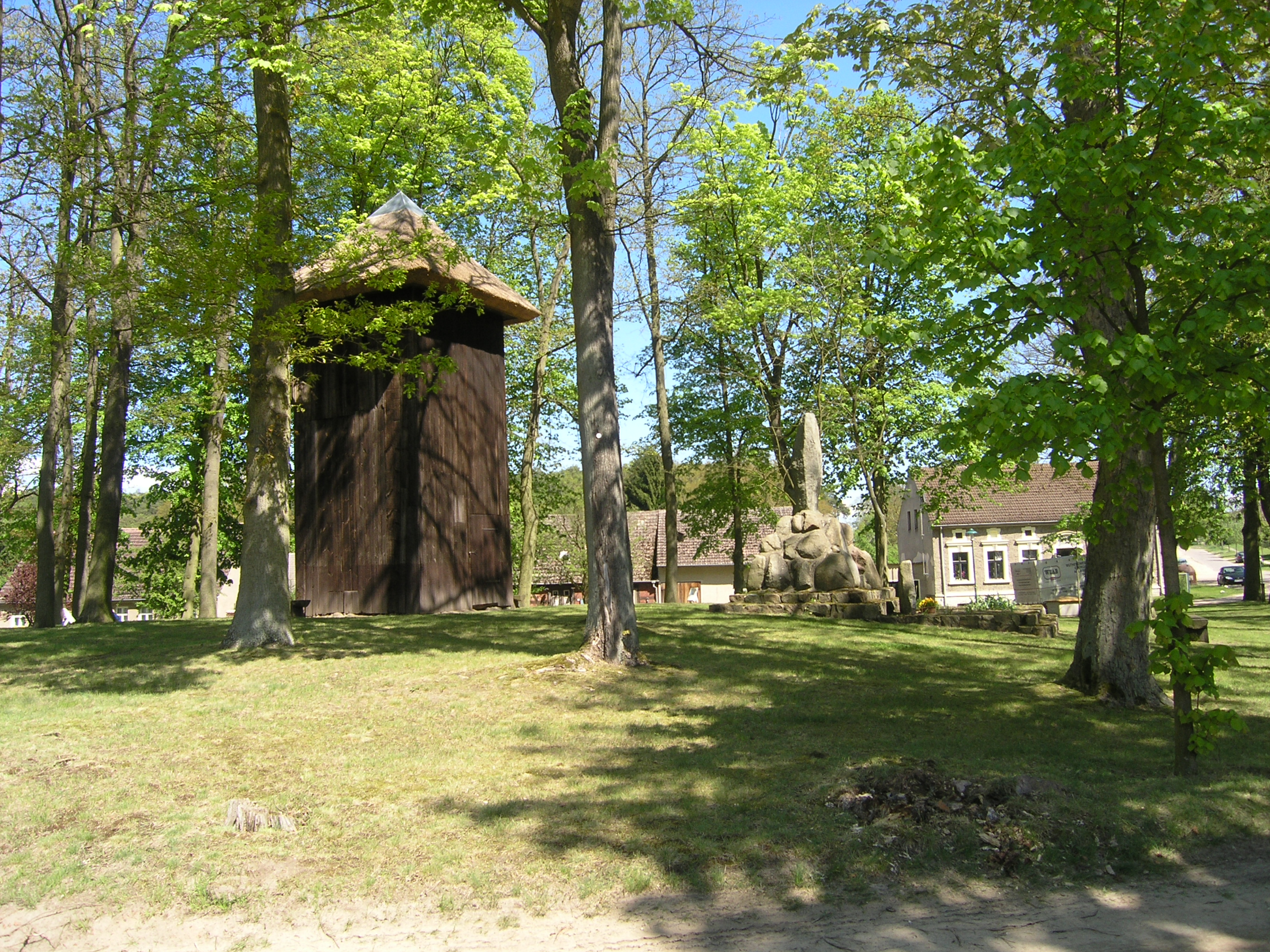 Bell Tower in Molchow (Germany)